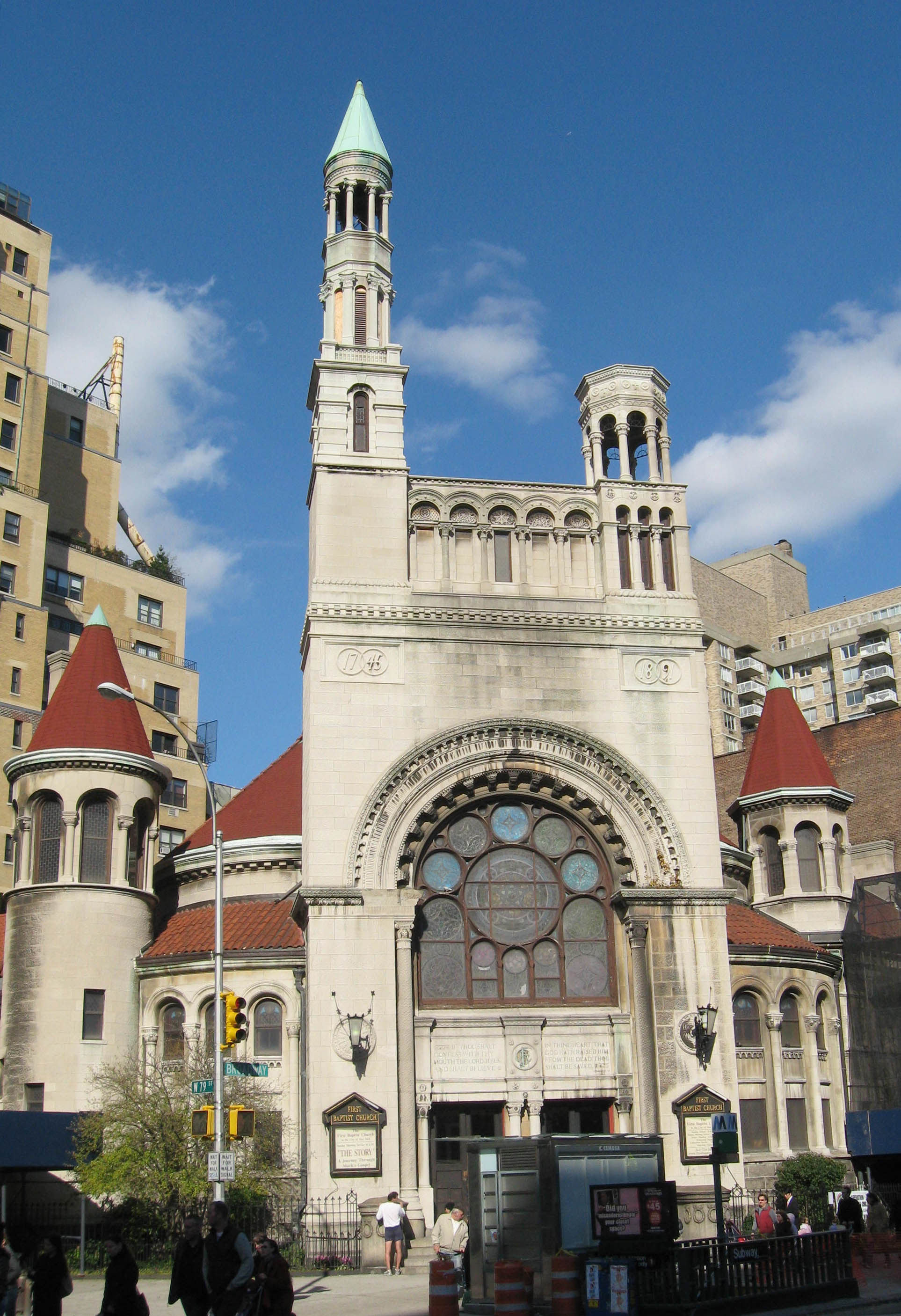 Looking northwest across Broadway and 79th at First Baptist Church in the City of New York on a sunny midday.